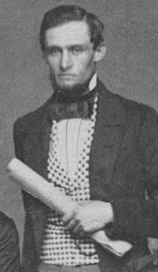 architect Charles K. Kirby, ca.1855 (detail of group portrait of Commission on the erection of the Boston Public Library, Boylston St. library building)